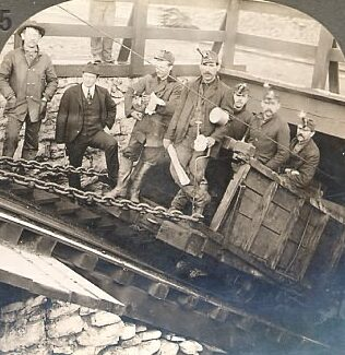 photo coal miners in Hazleton PA USA 1900 published in US pre 1923